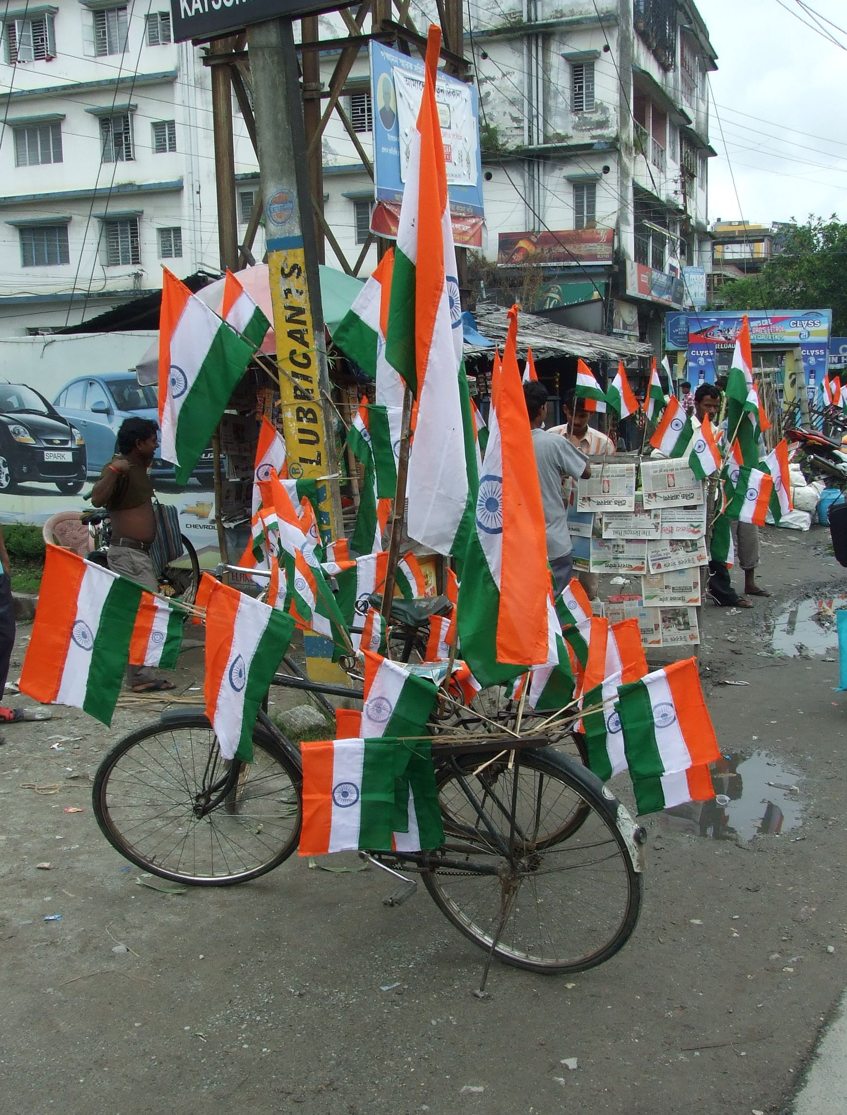 Indian flags on bicycle on Independence Day, Siliguri, West Bengal